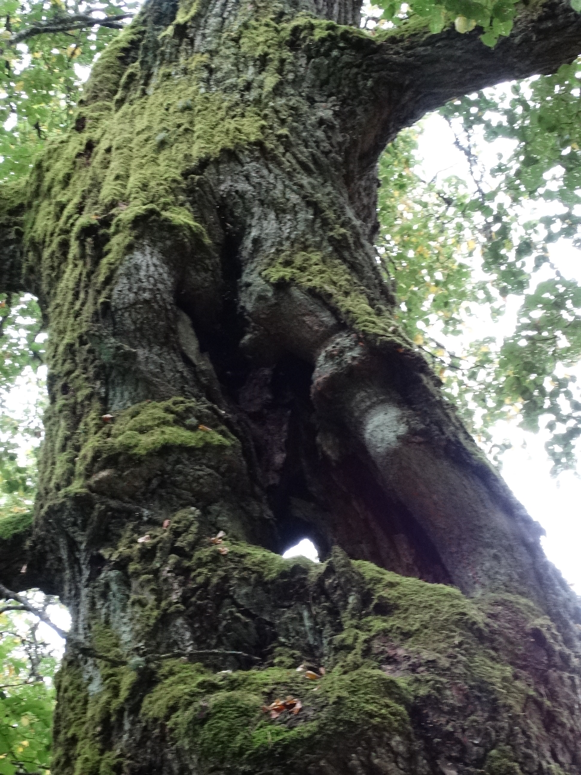 Lime tree, Pavariai, Anykščiai district, Lithuania